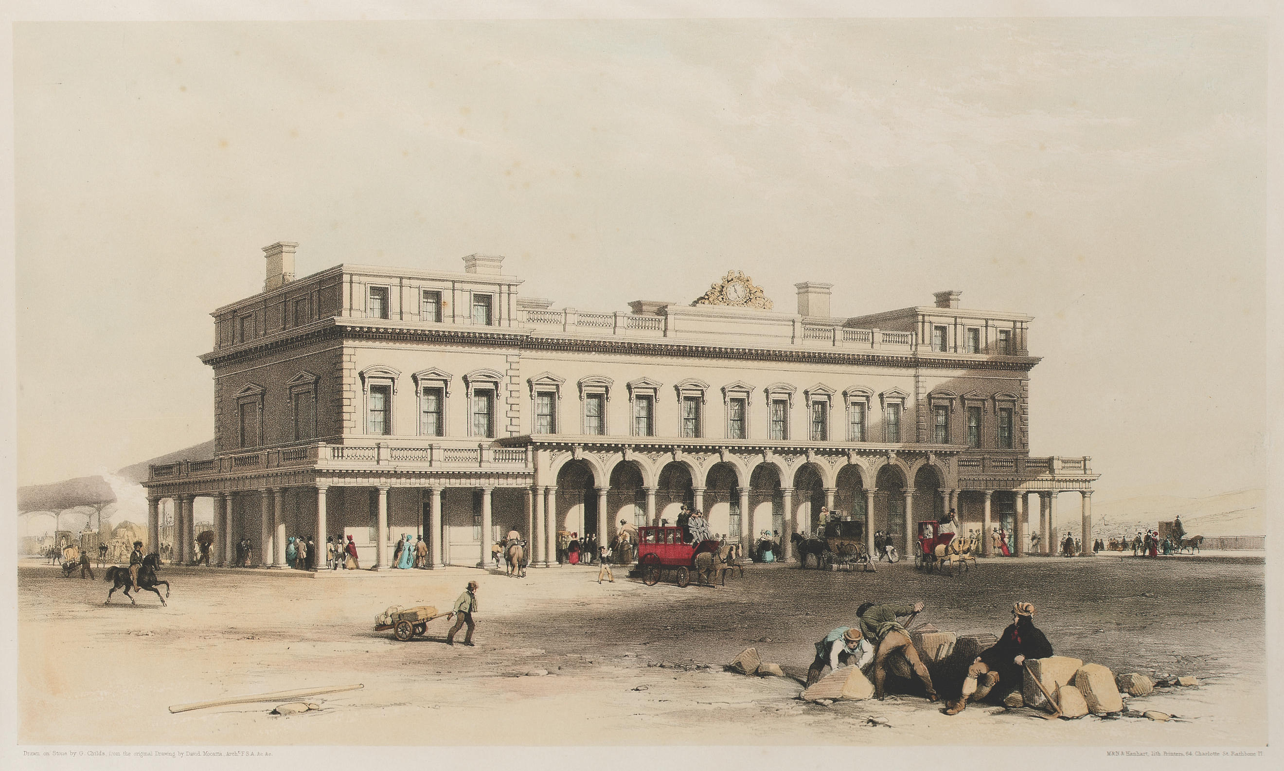 View of the Brighton Station of the London & Brighton Railway. Tinted lithograph, 1841. Published by Ackermann & Co, London; 31.0 cm x 53.8 cm